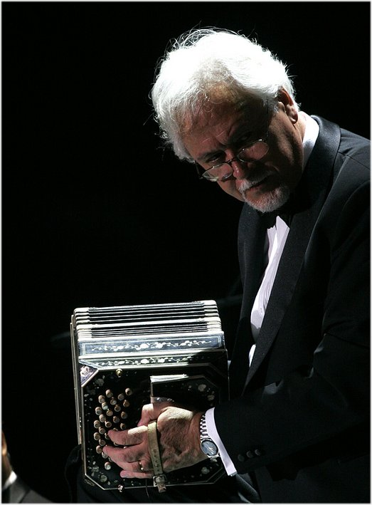 Fragment. Walter Rios playing in "Tango Argentino" at the Obselsco Buenos Aires, feb 2011. Photo:Estrella Herrera